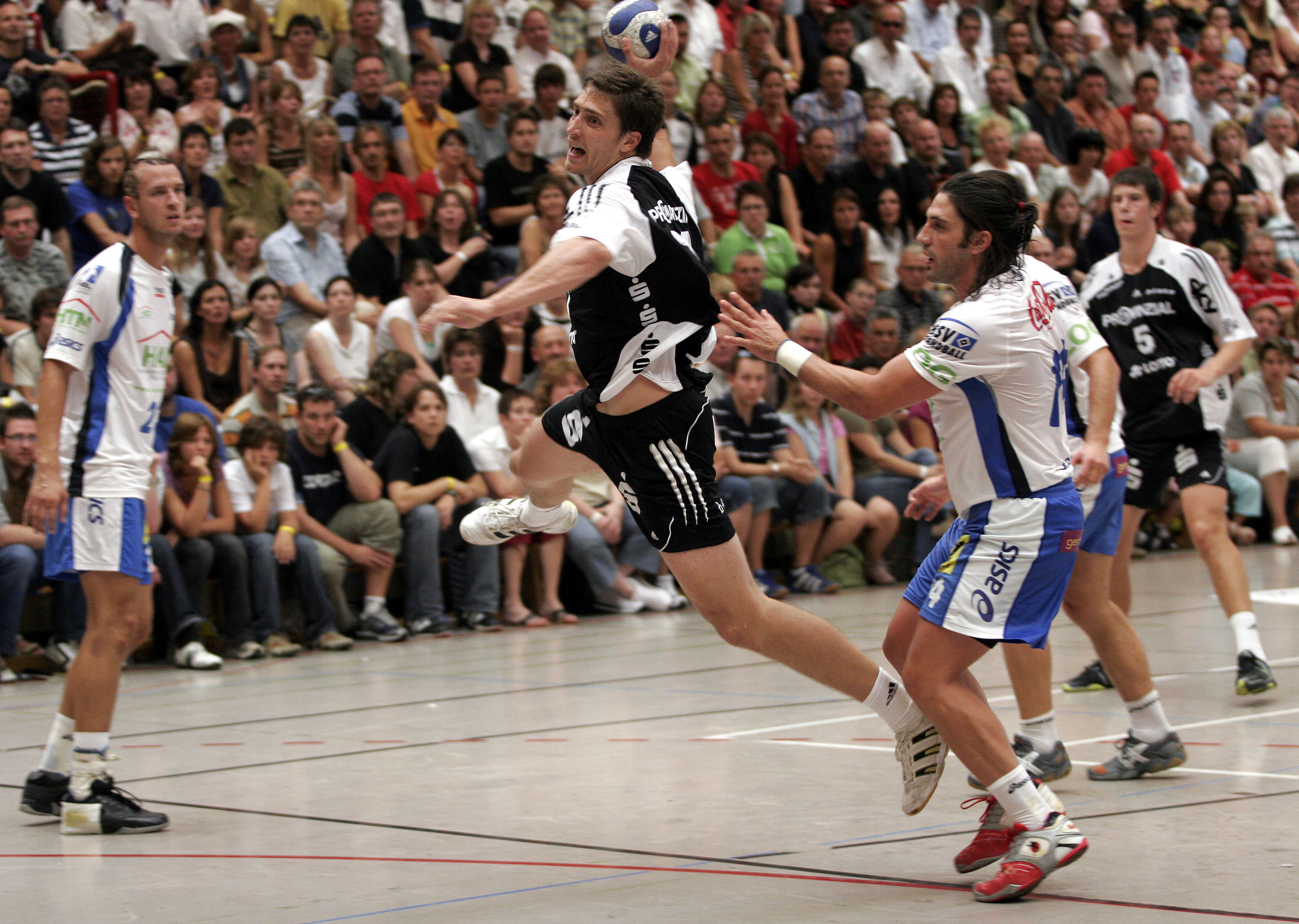 Marcus Ahlm, Swedisch handball player from THW Kiel, during the Schlecker Cup 2007 in Ehingen (Germany)